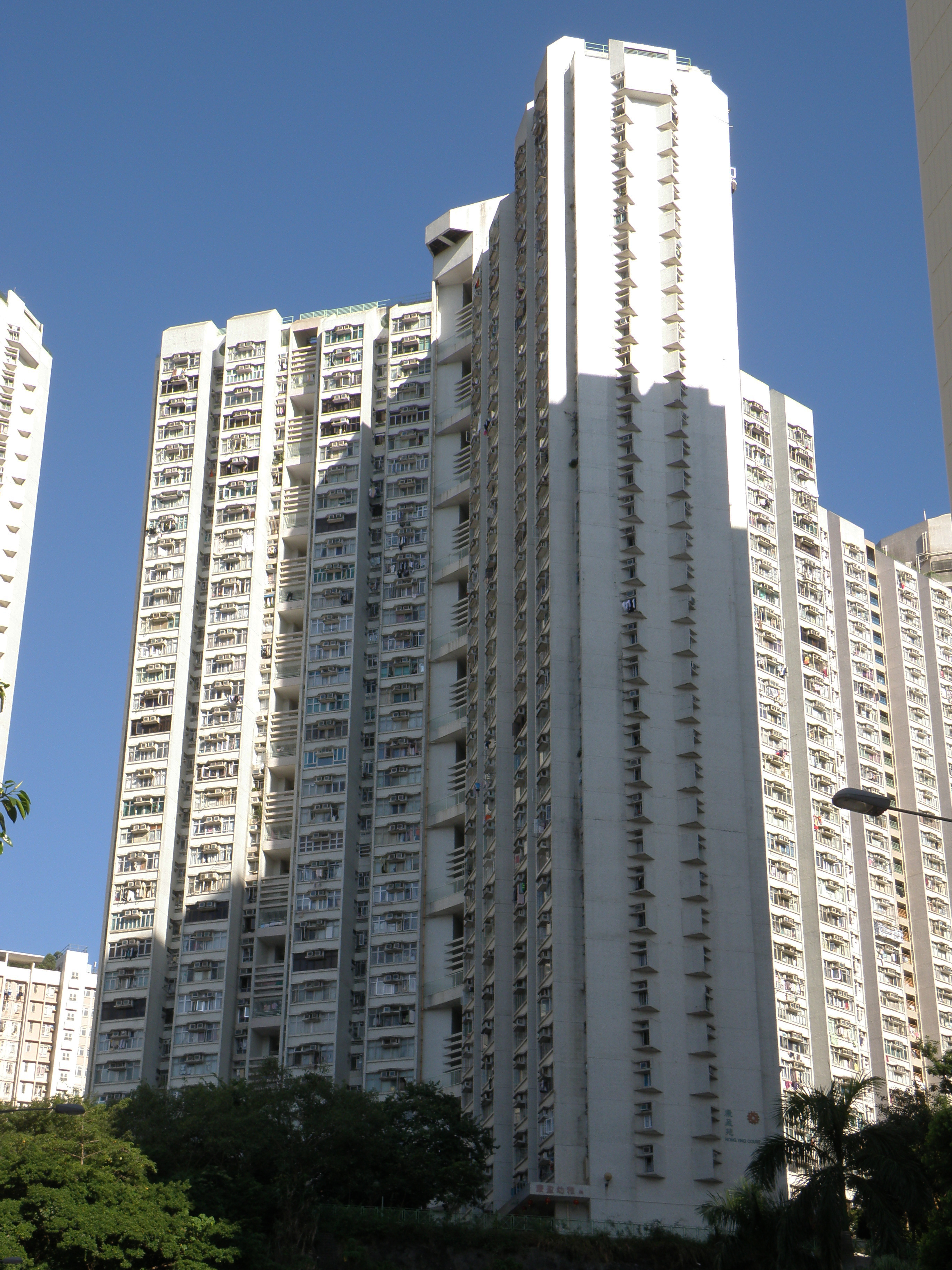 Hong Ying Court in Lam Tin, Hong Kong.